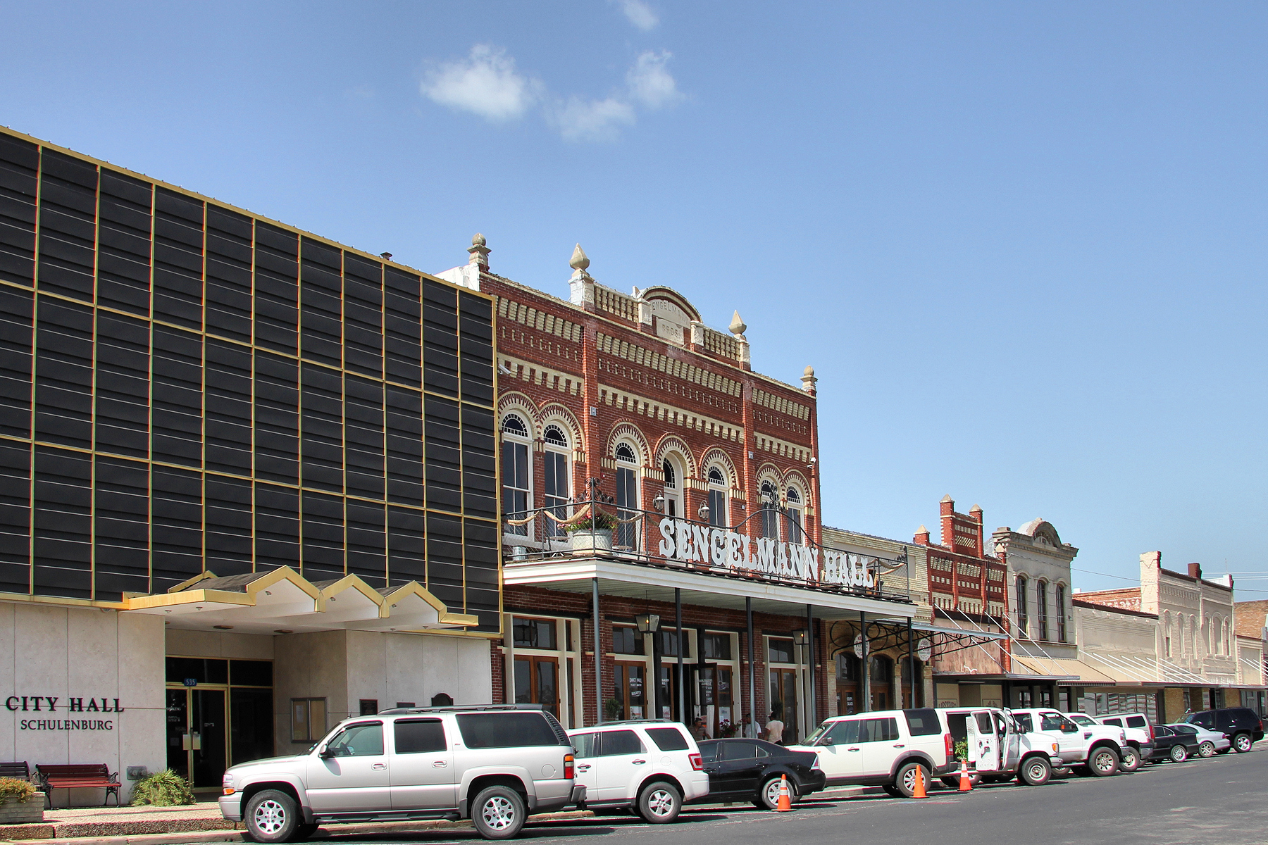 Downtown Schulenburg, Texas, United States.